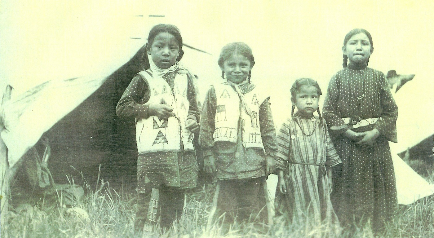 Children of Felix Flying Hawk of Manderson, SD on June 22, 1908. Grandchildren of the Oglala Sioux Chief Flying Hawk. Photograph by M.I. McCreight at "The Buffalo Bill Wild West Show" in the City of Du Bois, PA.